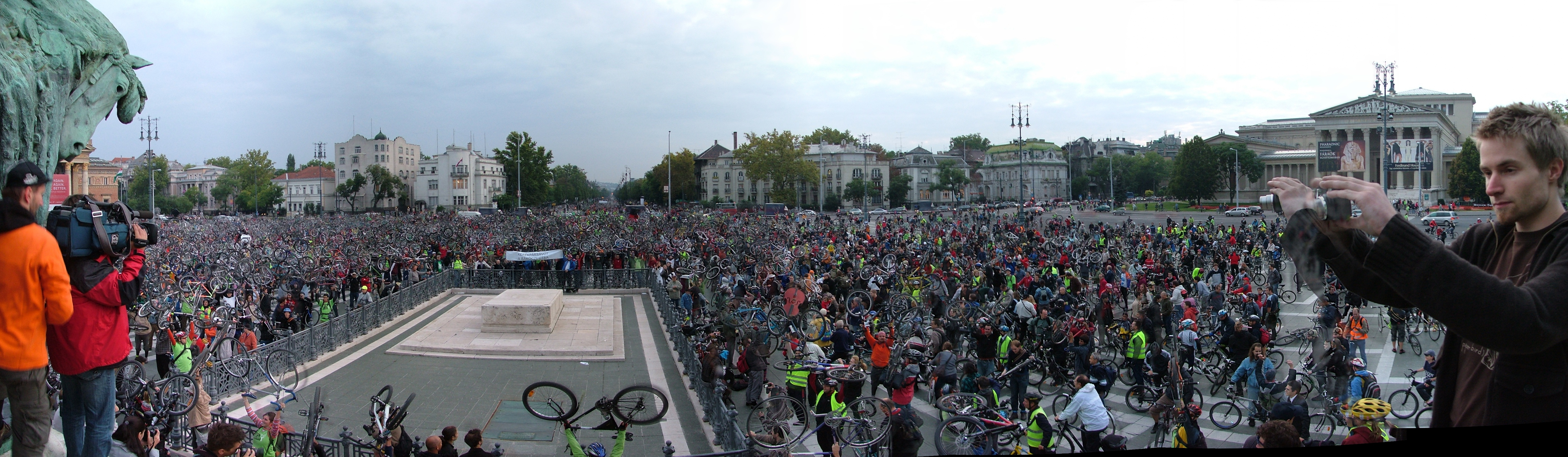 Bikelifting before the autumn Critical Mass in Budapest, Hungary. Heroes' square.